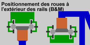 Diagram of the positioning of the wheels outside rails of a B&M roller coaster. Drawing created by myself Sam-Pig.